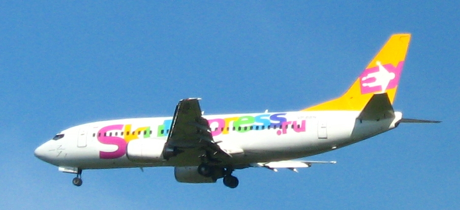 Boeing-737 of the Russian air company Sky Express. The picture was taken close to the Vnukovo Airport (Moscow)